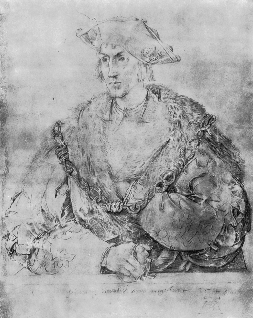 Henry Parker, lord Morley crayon on paper 38 x 30,8 cm 1523